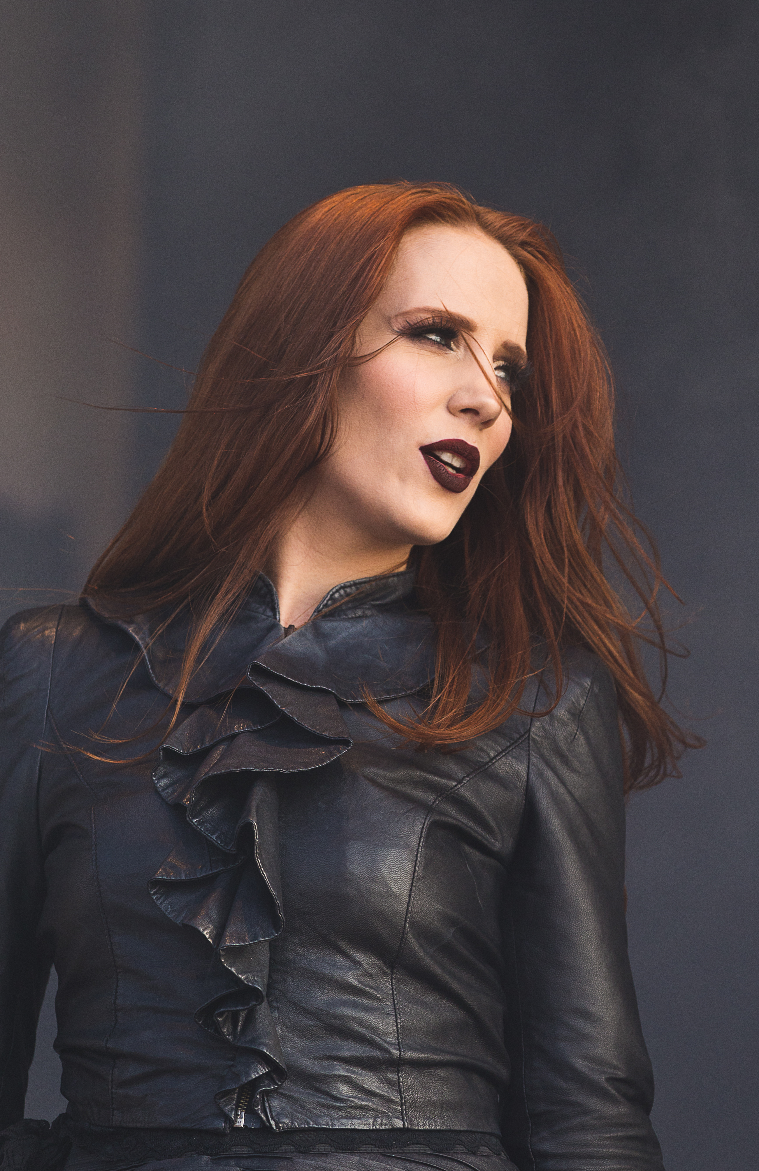 The Dutch symphonic metal band Epica at the Rockharz Open Air 2015 in Ballenstedt/Germany.